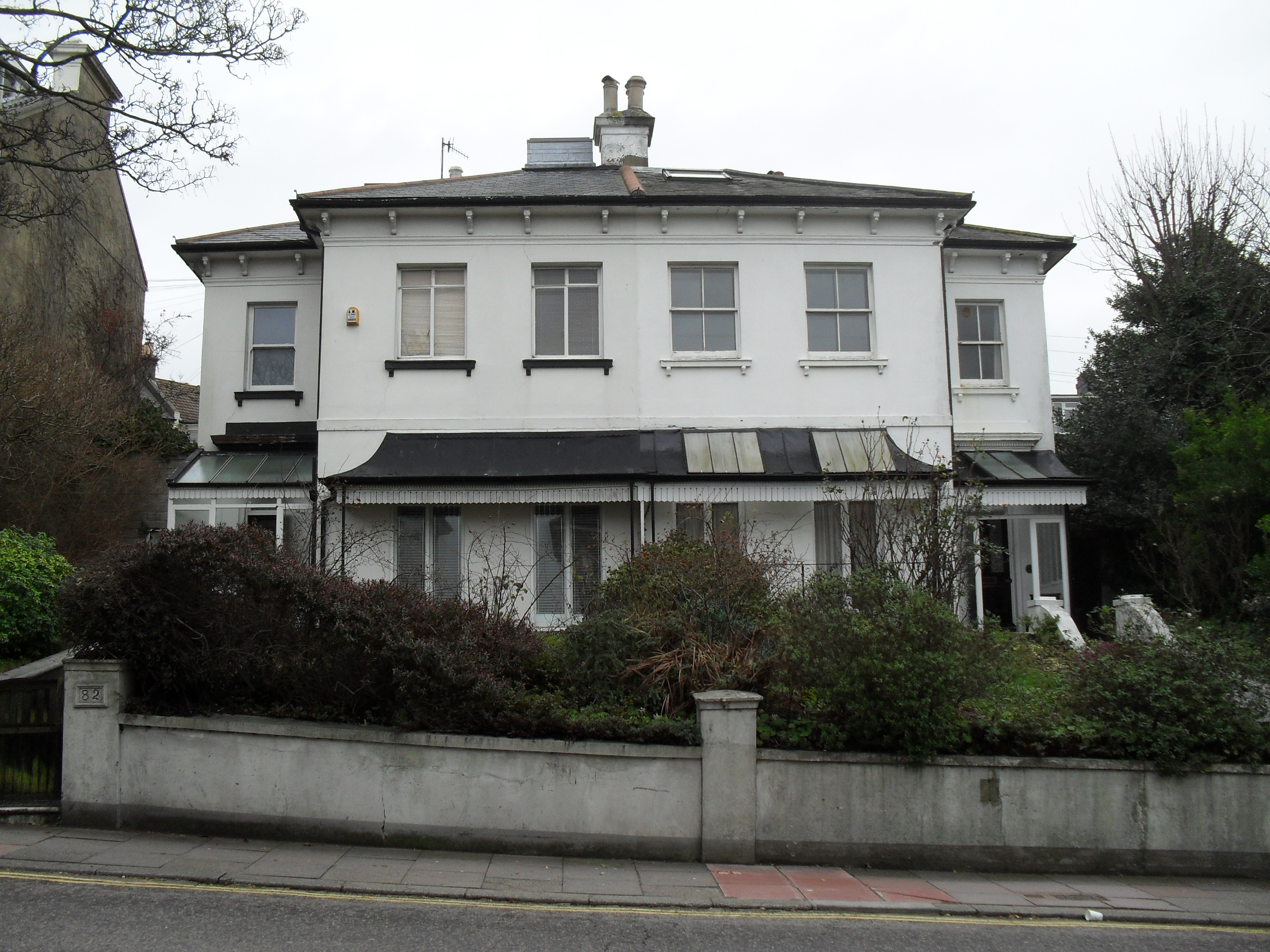 80 and 82 Ditchling Road, Round Hill, City of Brighton and Hove, England. One of a series of seven semi-detached villas built as high-quality housing in the 1850s as Brighton grew. They were some of the earliest houses in the area now covered by the inner suburb of Round Hill.